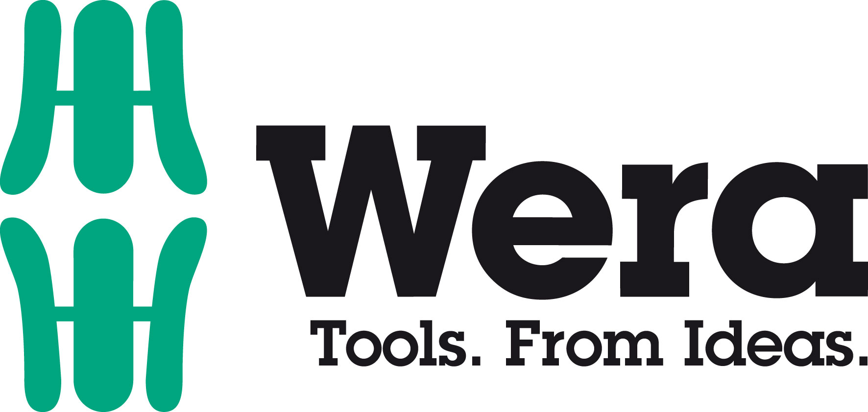 company logo of Wera Tools